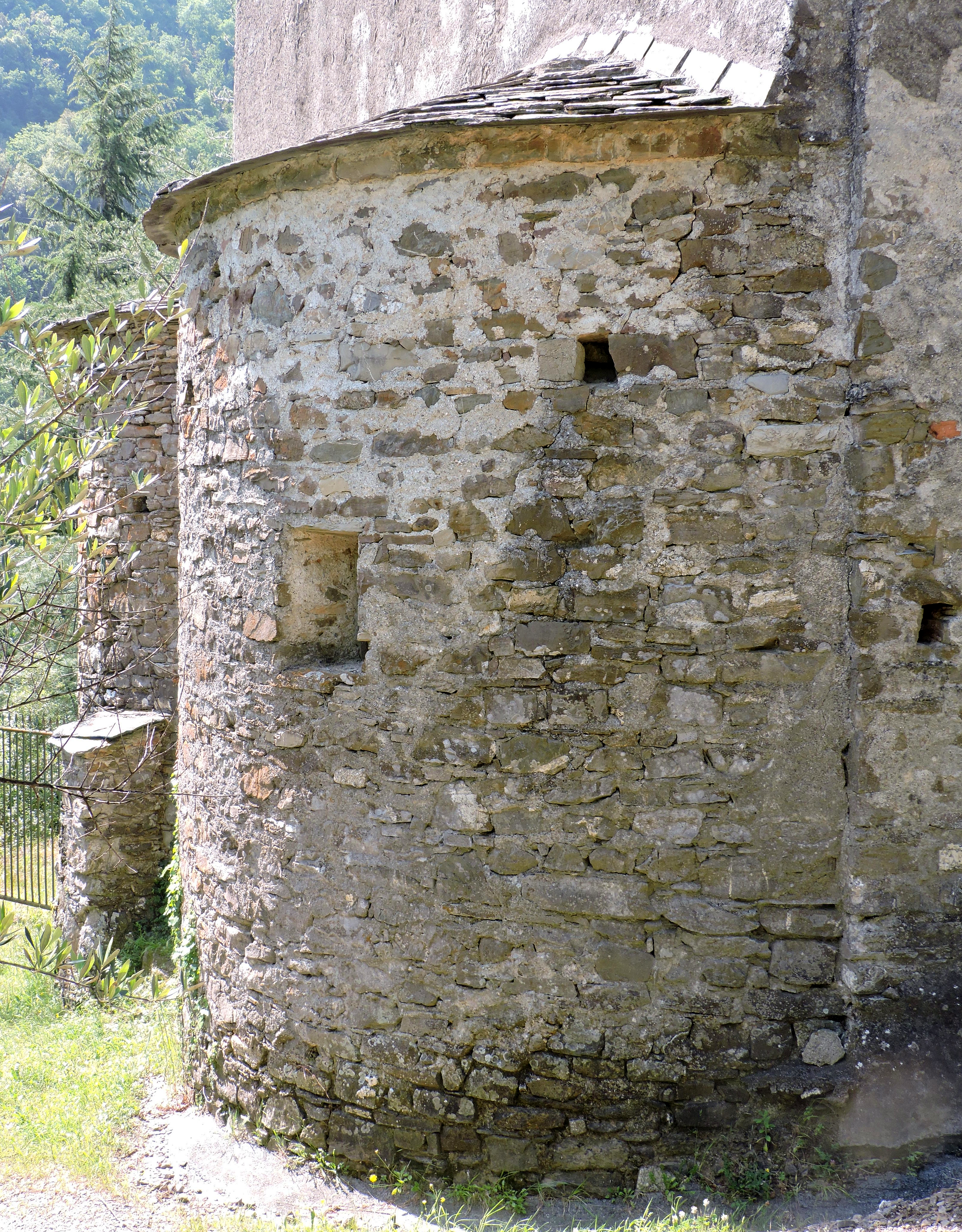 San Pantaleo church (Ranzo, IM, Italy): northern apse